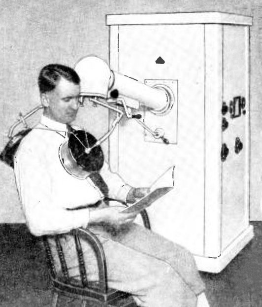 A German diathermy machine from 1933. This induced local deep tissue heating of the body by radio waves. Earlier "long wave" diathermy machines using Tesla coils had operated at around 0.5-2 MHz, which caused only general heating. "Short wave" vacuum tube diathermy machines like this which produced frequencies of 10-100 MHz were capable of more localized heating, and replaced them around 1930. Two capacitor plates are applied to the body, attached to the vacuum tube oscillator, and the oscillating voltage is applied to them, with the intervening body acting as the capacitor's dielectric.